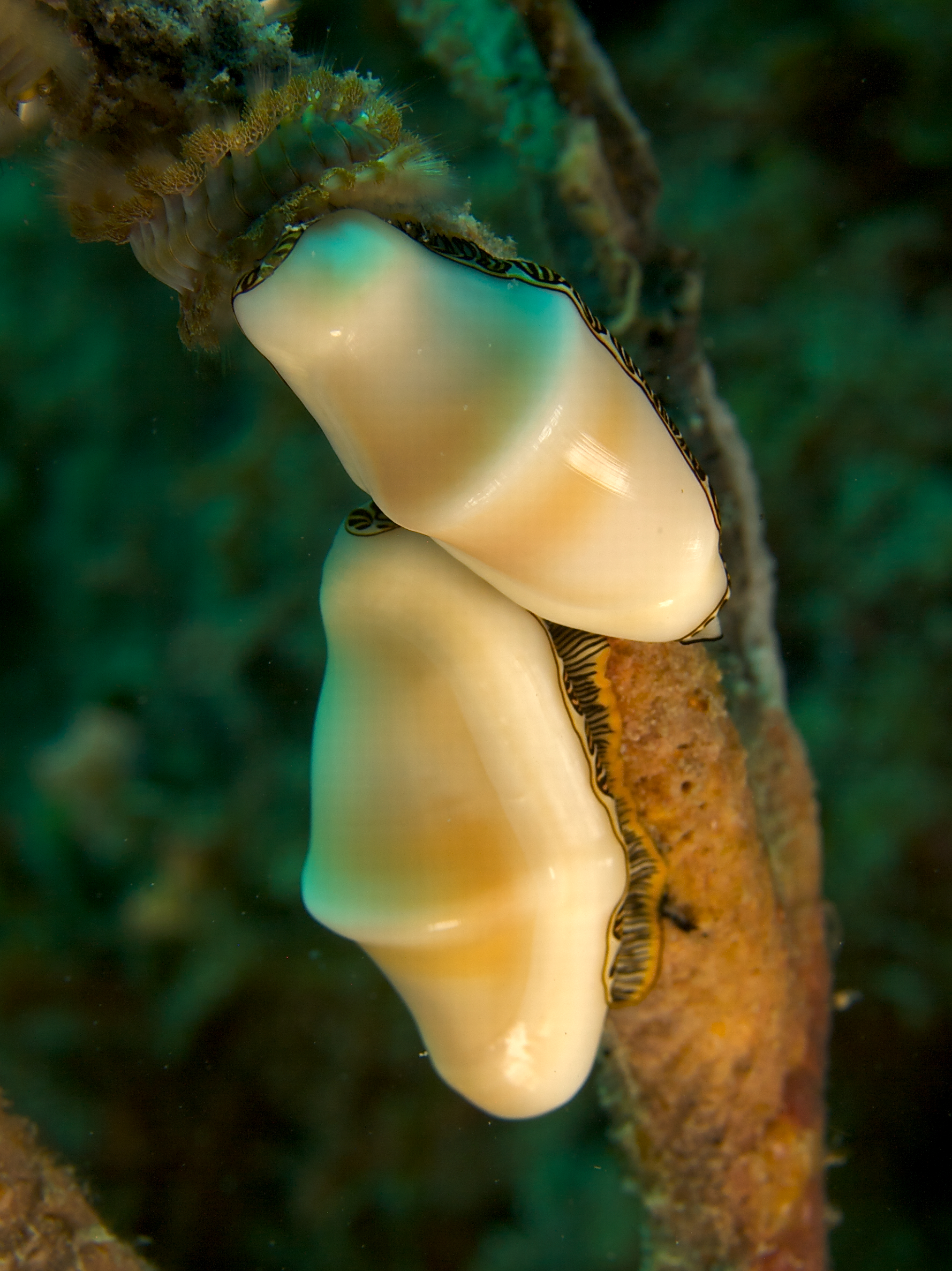 Fingerprint cyphoma with mantle retracted.